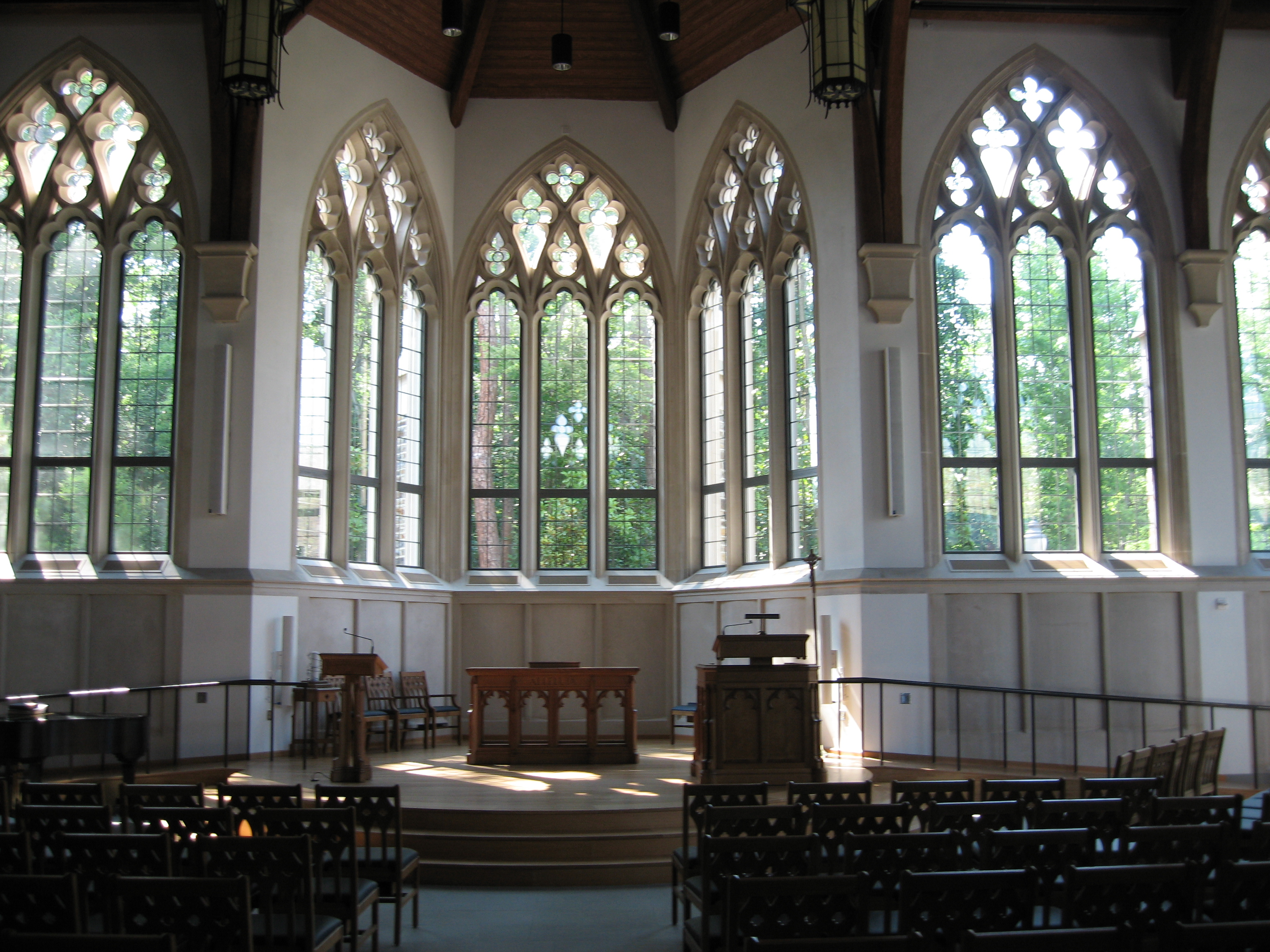 Inside Goodson Chapel, part of Duke University's Divinity school